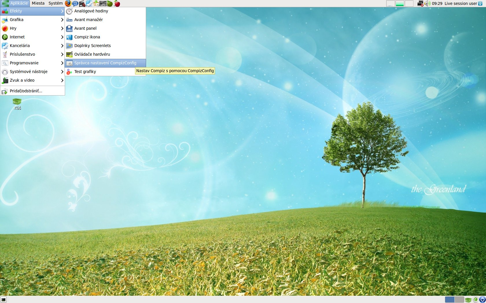 Greenie 5j - screenshot